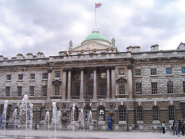 Somerset House, London. Image by ChrisO.